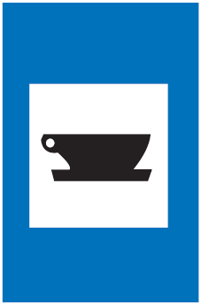 Diagram of road signs of Luxembourg